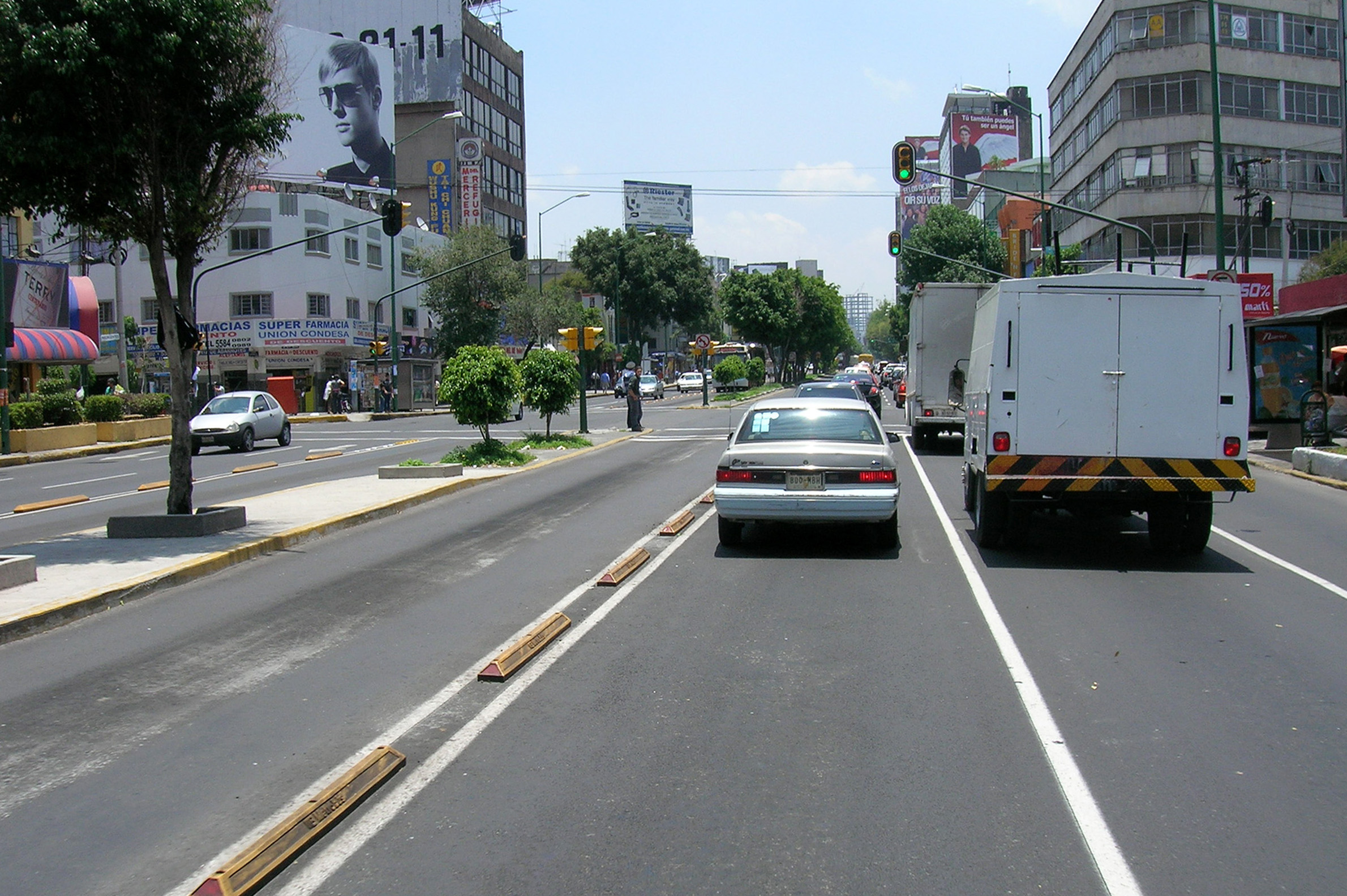 Avenida de los Insurgentes, Mexico City